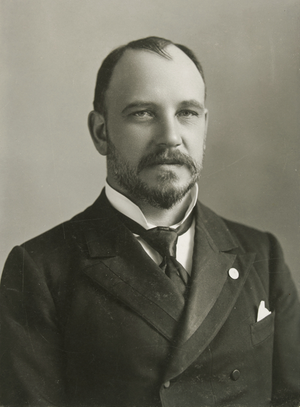 Norwegian physician Eduard Bøckmann (1859–1927), based in St. Paul since 1882, professor at Hamline University 1898–1908